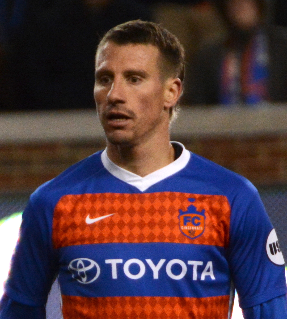 Taken during FC Cincinnati's home opener against Louisville City FC at Nippert Stadium in Cincinnati, USA on April 7, 2018.